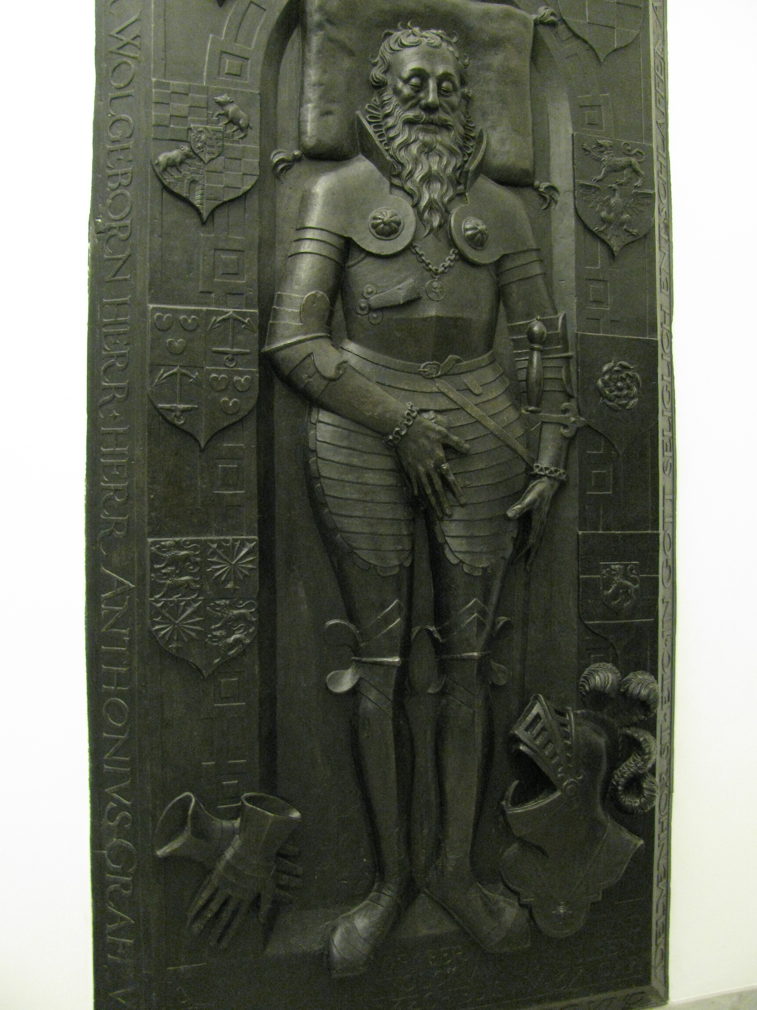 Count Anton I. of Oldenburg, 1505-1573.